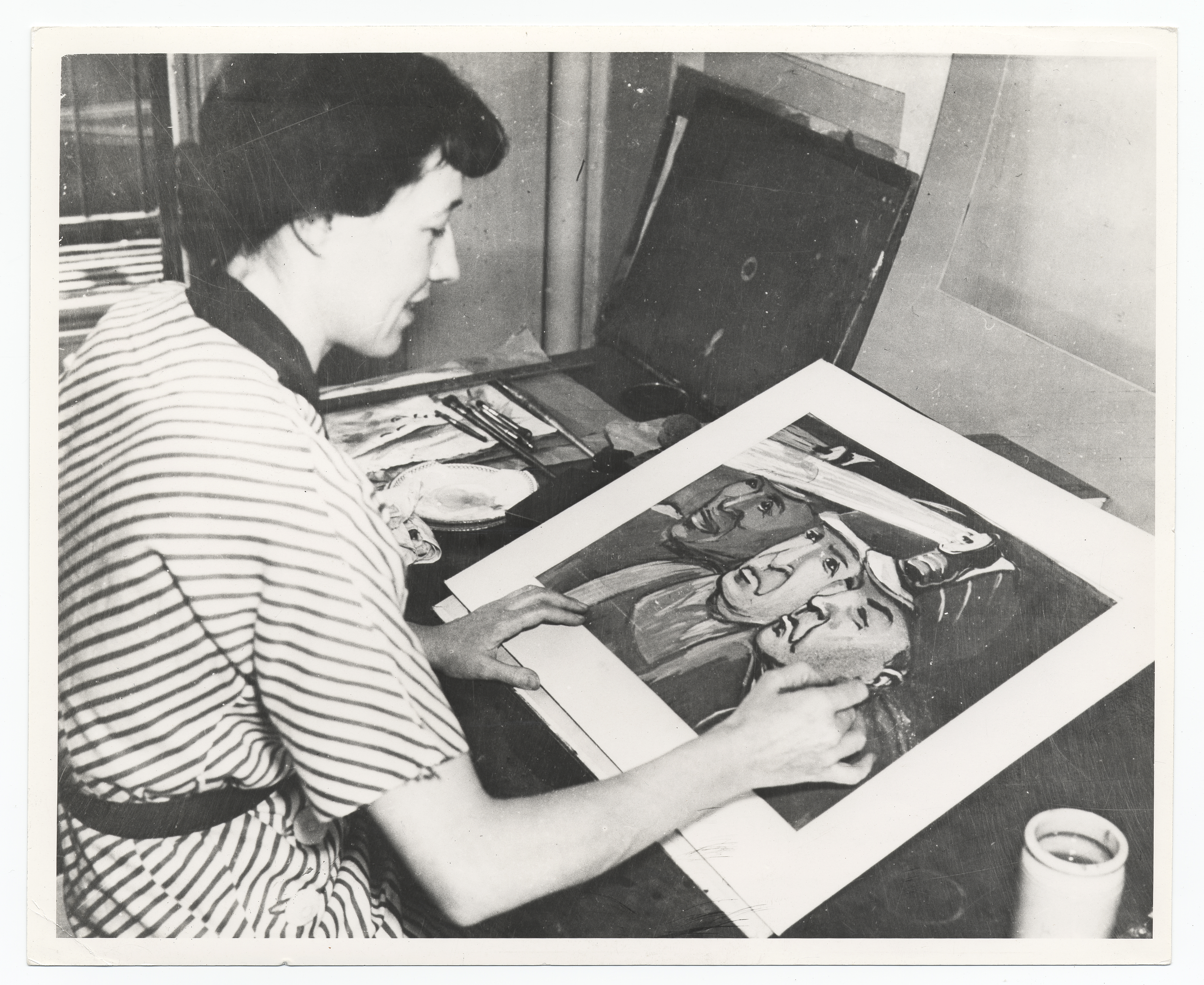 Identification on verso (typewritten): Prize winning artist inspects proof fresh from graphic studio. Elizabeth Olds at work; New York City.